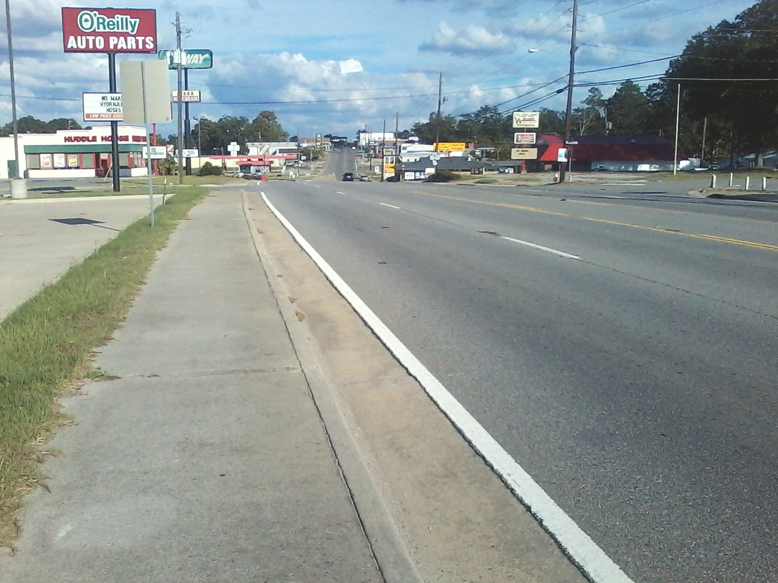 McRae-Helena central Business District on U.S. Route 341